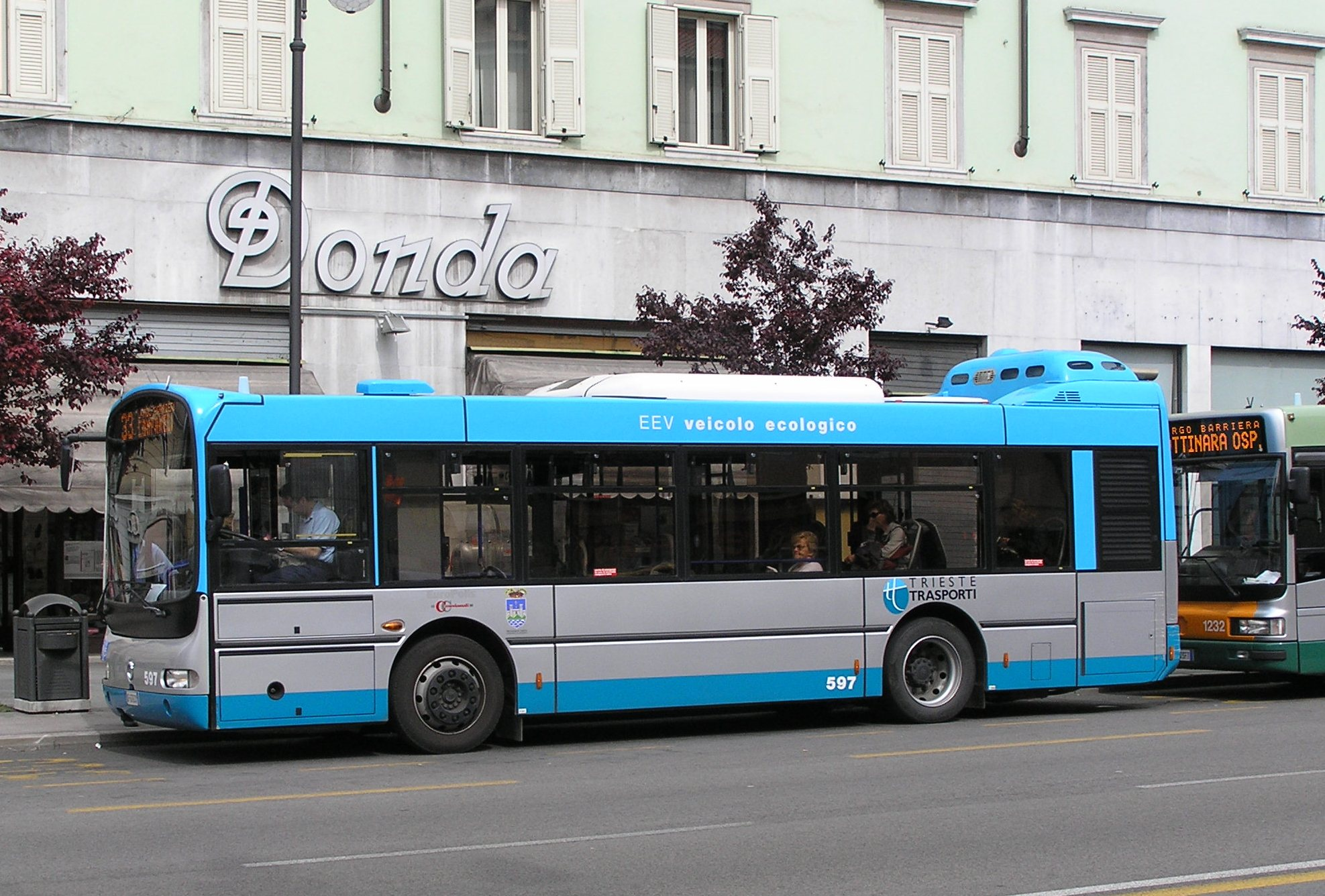 A Trieste Trasporti Irisbus 203E.9.25 Europolis EEV bus (#597) built 2007.